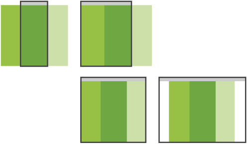 Off canvas